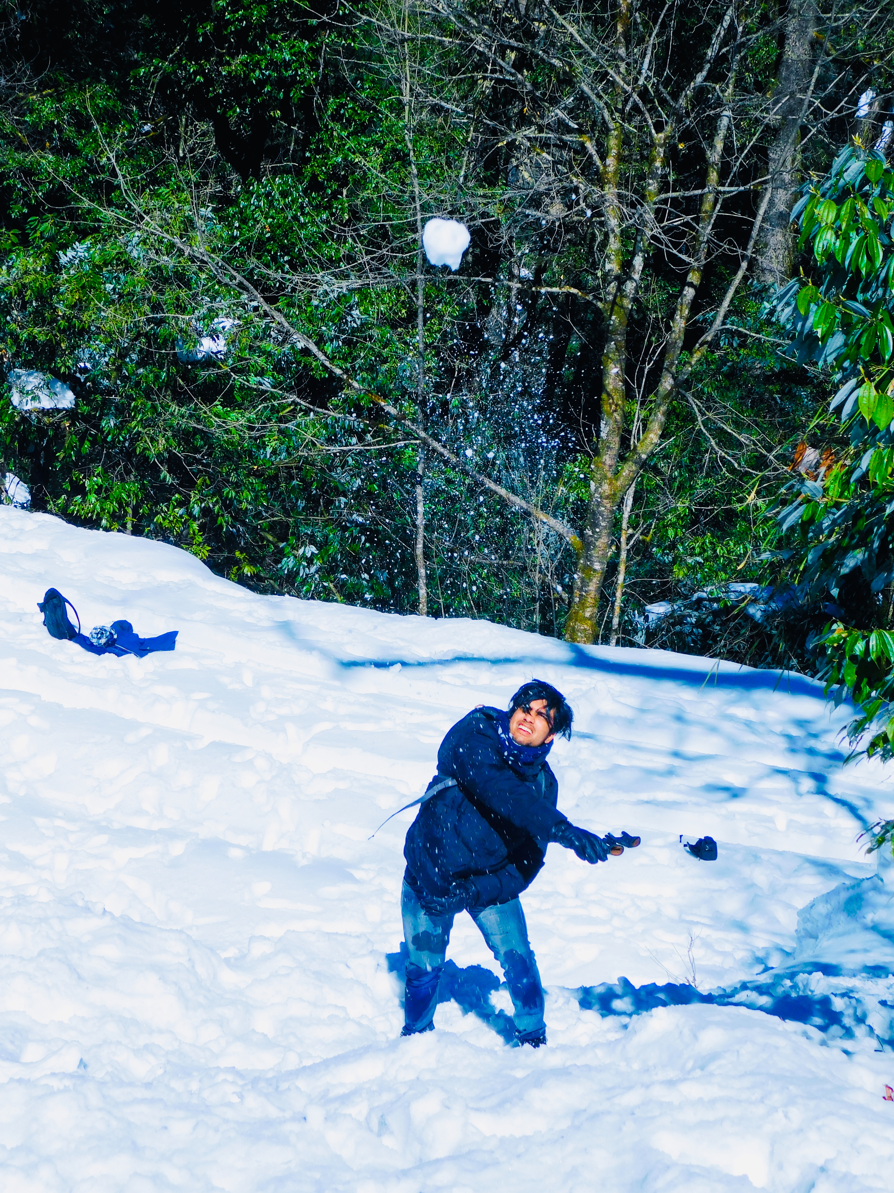 Snowfall at tungnath during winter season